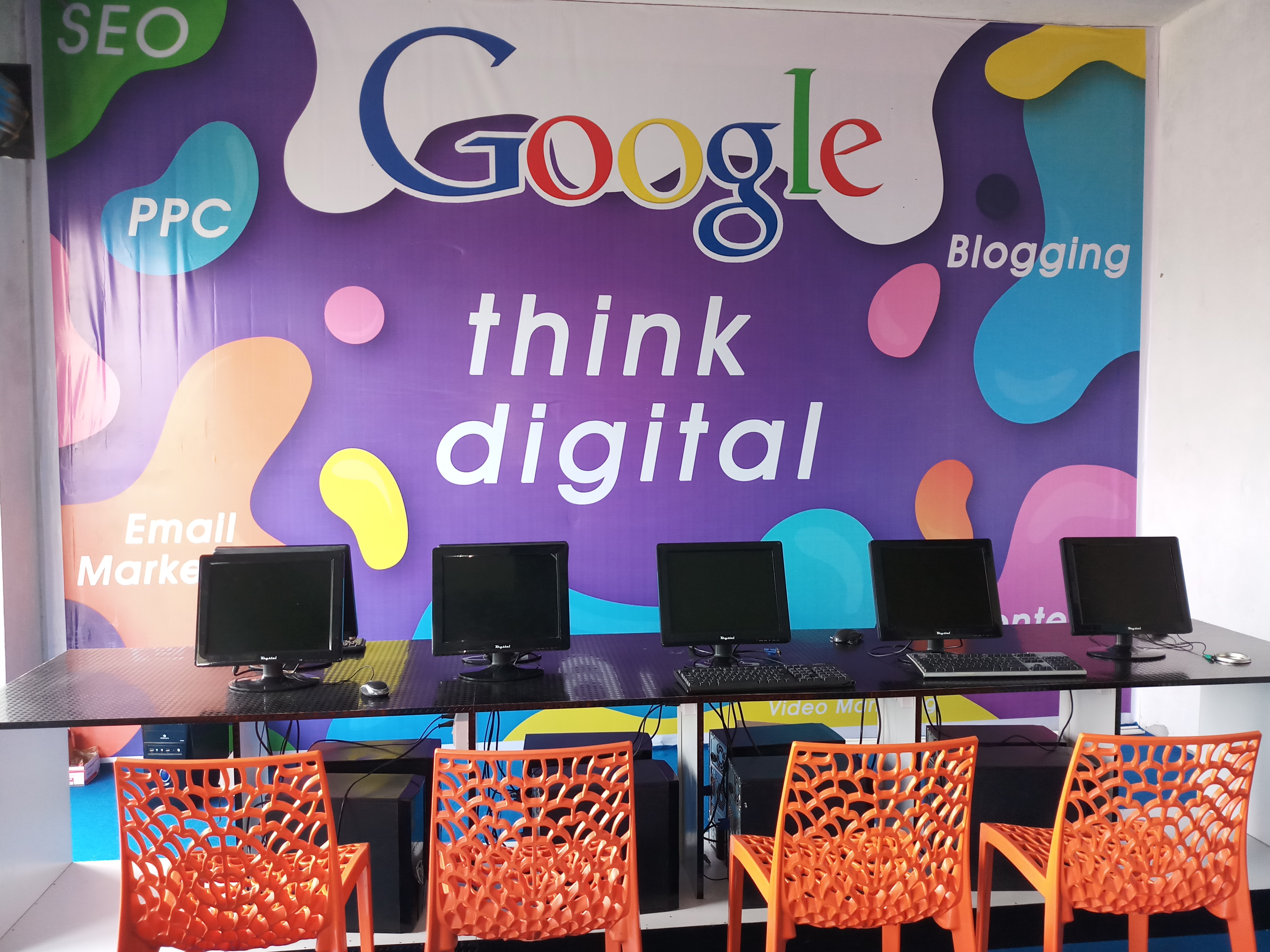 Near Manjunadha Kids Hospital, Mahalaxmi Road, Armoor - 503224